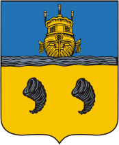 Nerekhta (Kostroma oblast), coat of arms (1779)